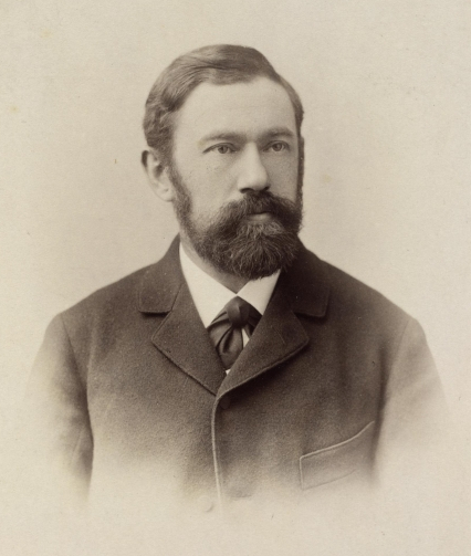 Moriz von Kuffner (1854–1939), Jewish Austrian entrepreneur, art collector, climber and philanthropist